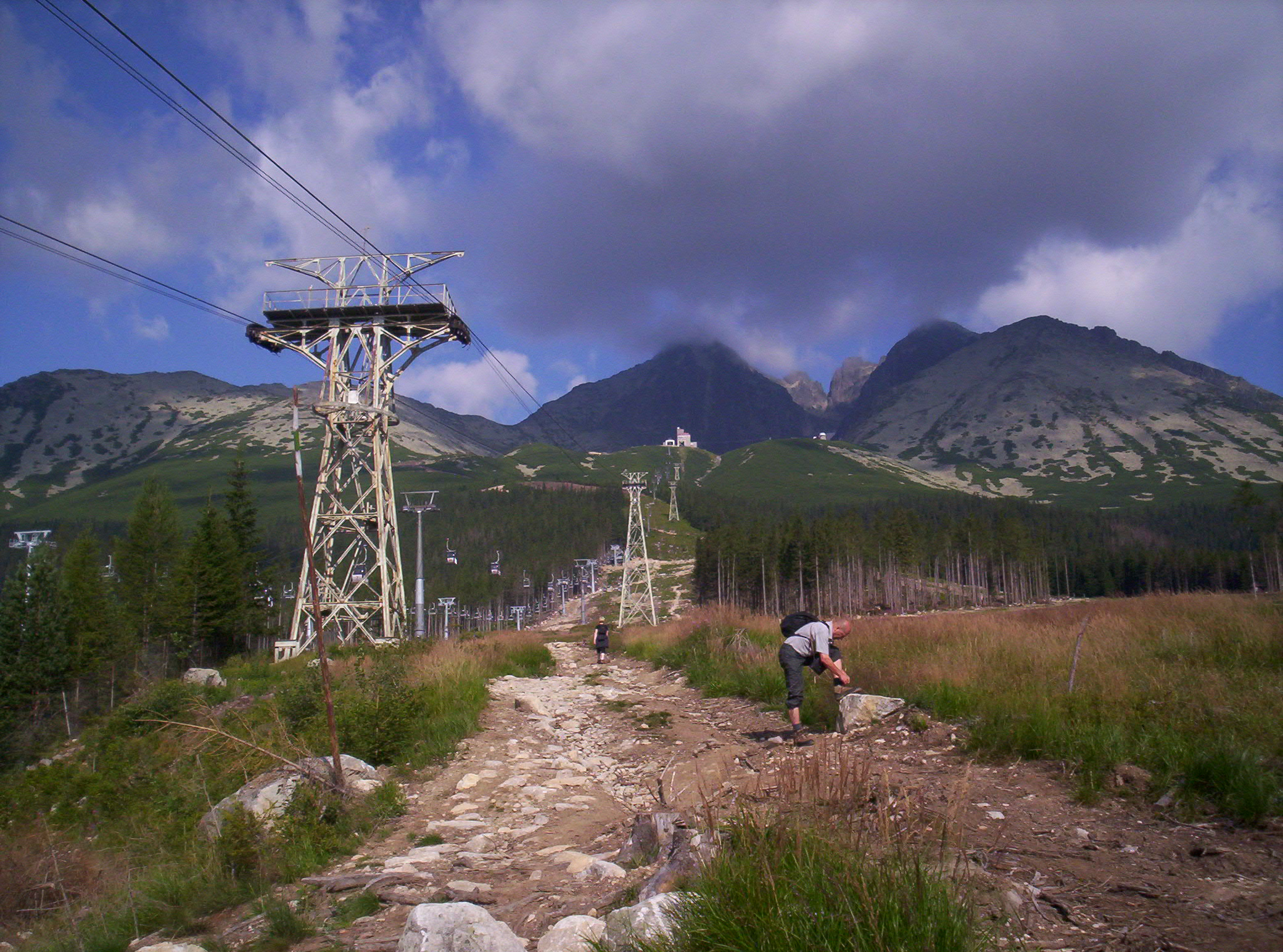 View on Lomnický štít from route Tatranská Lomnica - Skalnaté pleso